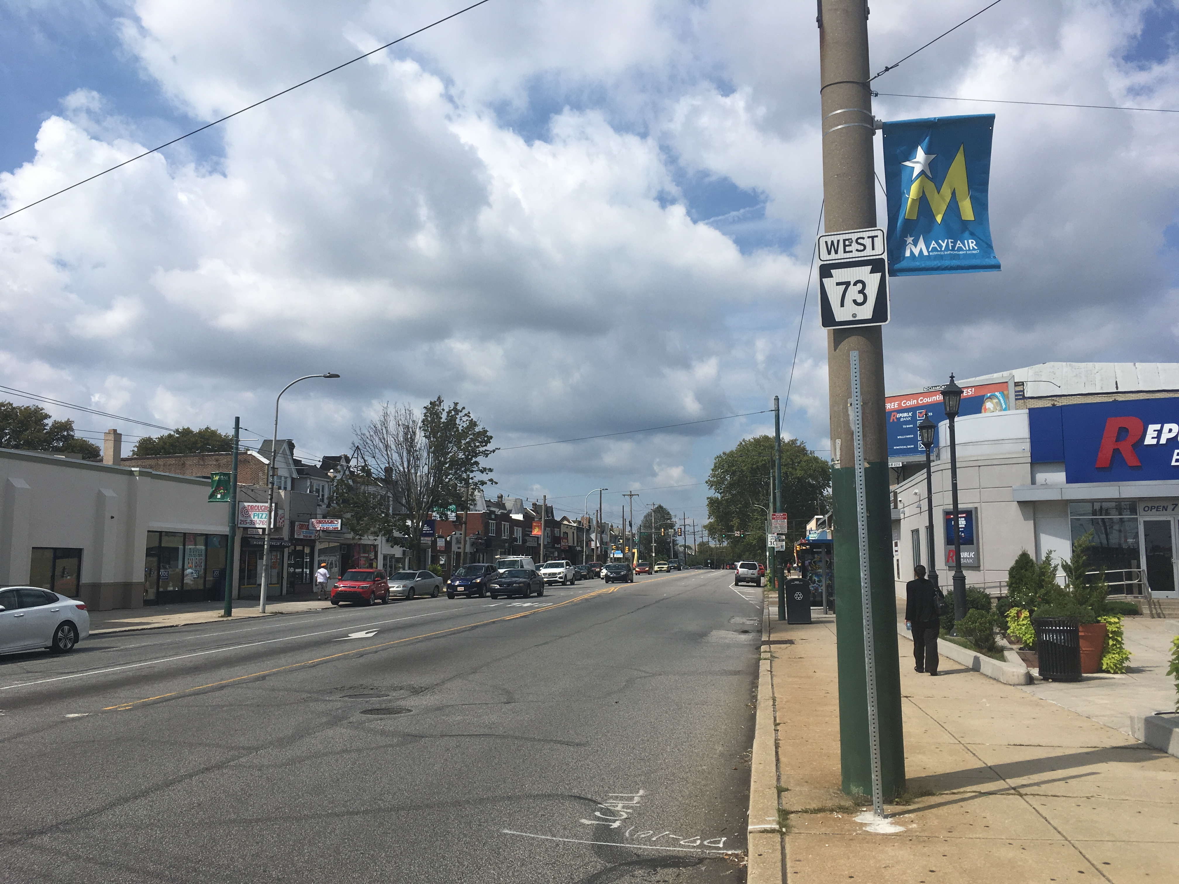 Westbound Pennsylvania Route 73 (Cottman Avenue) past the intersection with U.S. Route 13 (Frankford Avenue) in Philadelphia, Pennsylvania